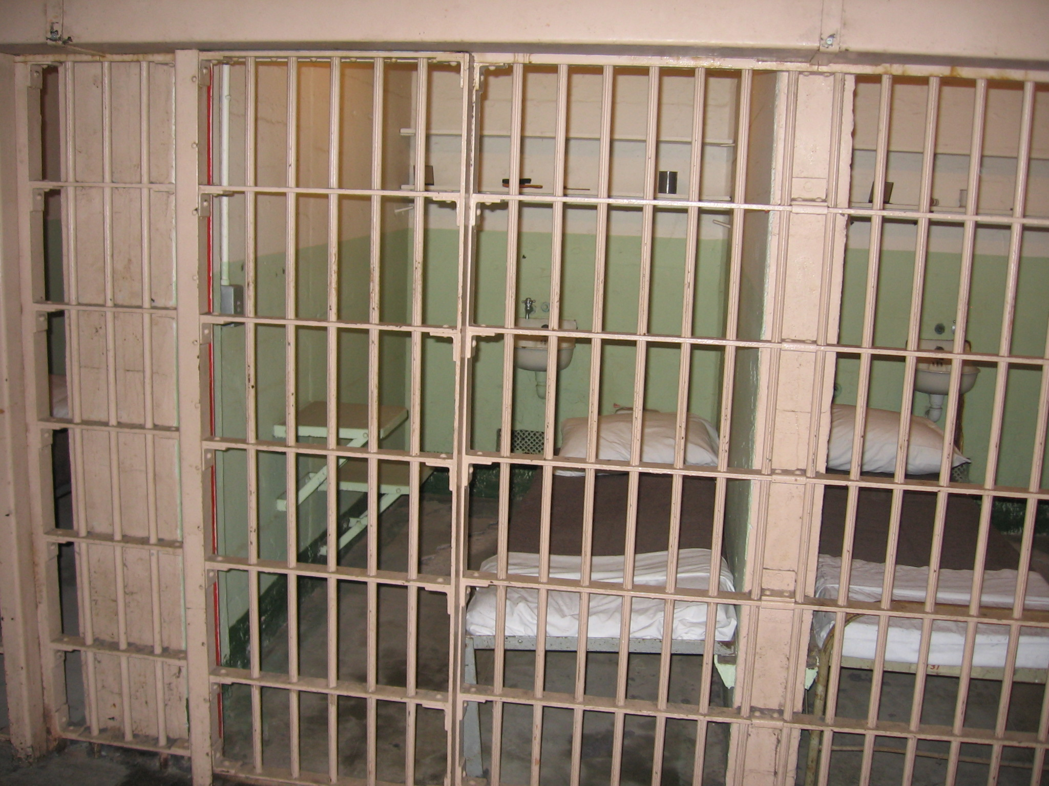 A couple of cells in Alcatraz.